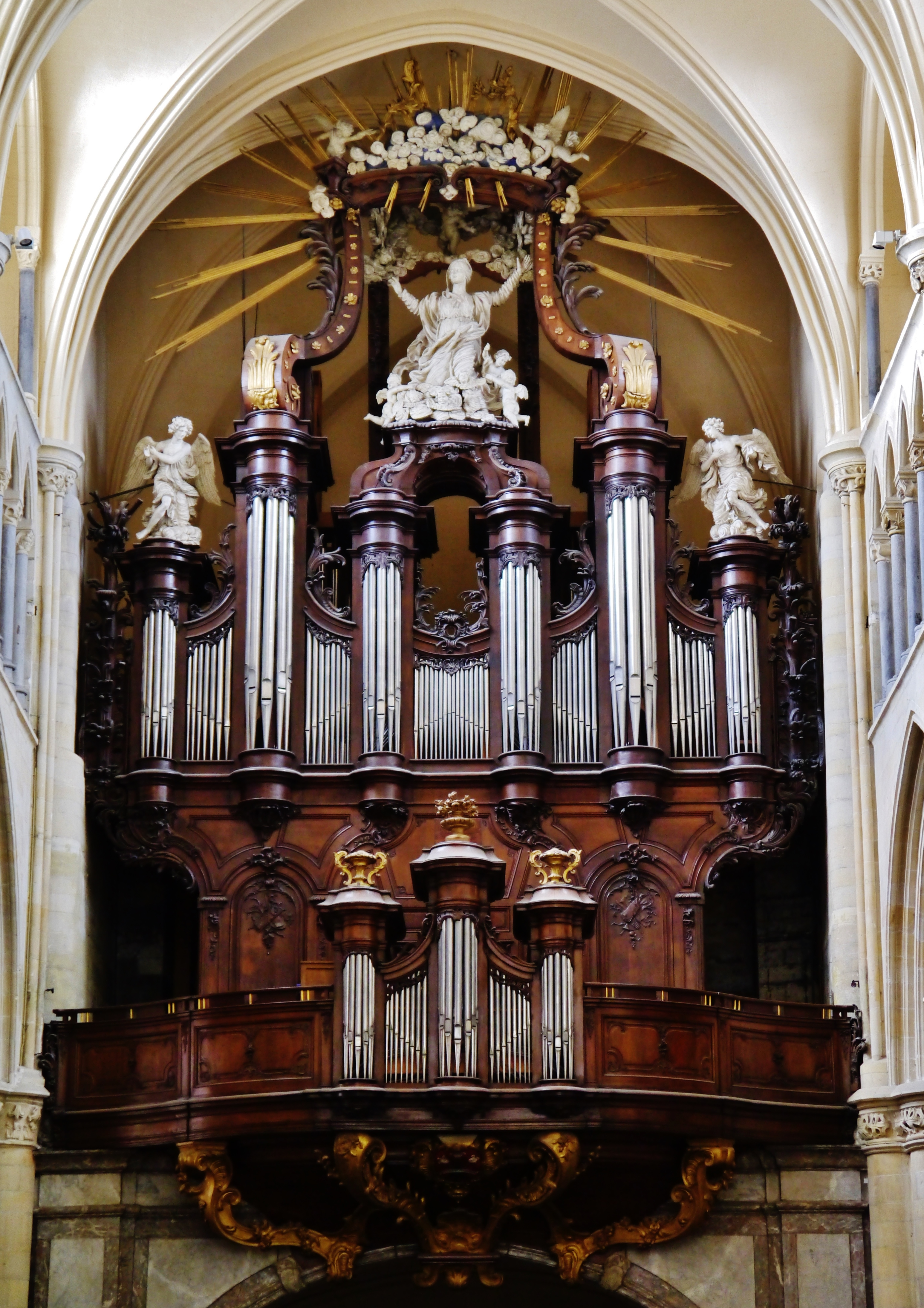 Organ of the Basilica of Our Lady, Tongeren, Province of Limburg, Flanders, Belgium